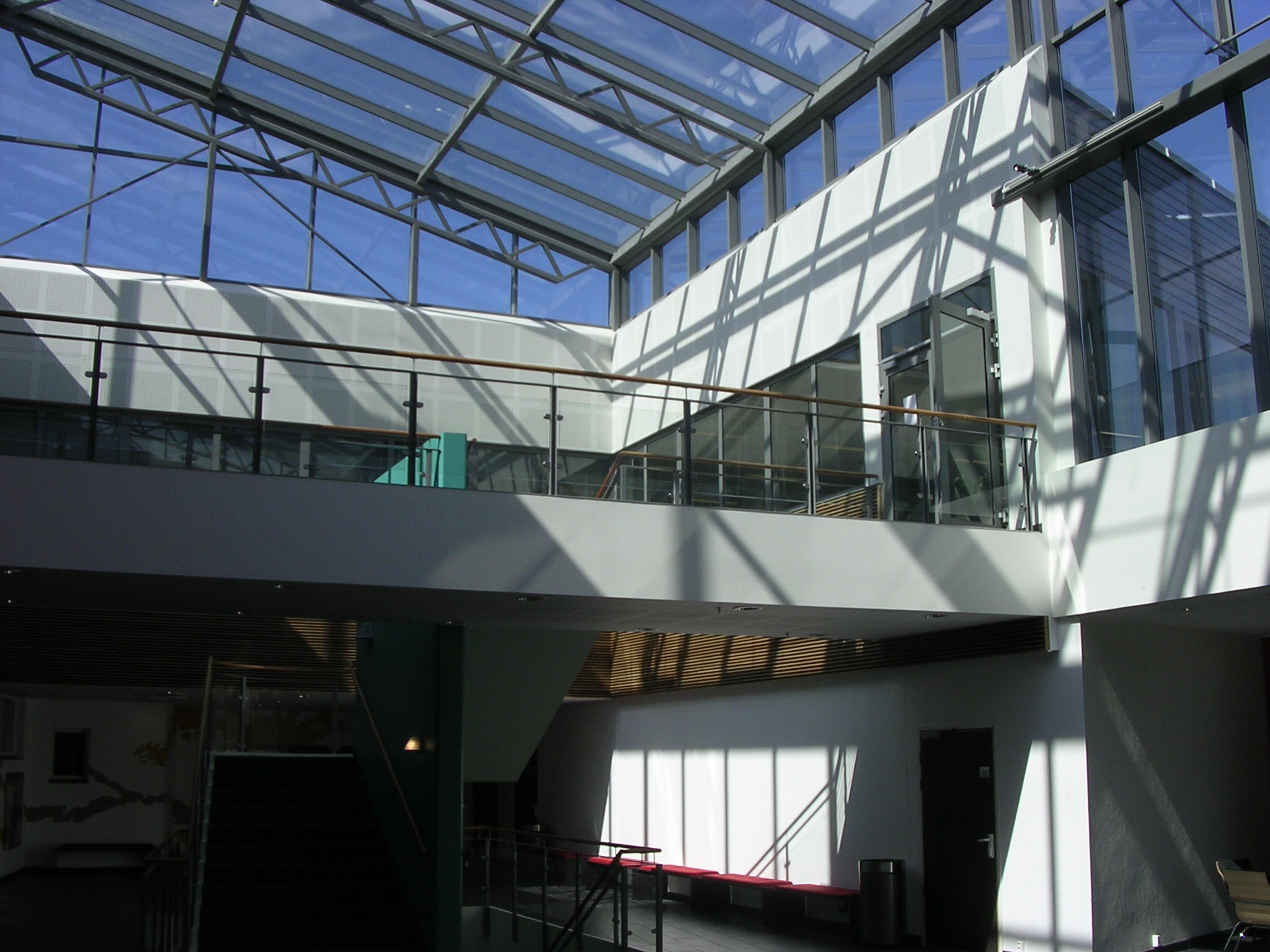 Nesna University, interior from new wing